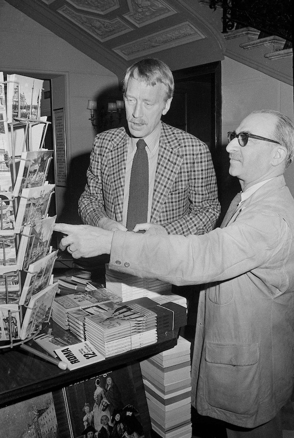 From left to right: Swedish actor Max von Sydow and Italian film director Alberto Lattuada at a newsstand in Rome (Italy), November 29, 1974.